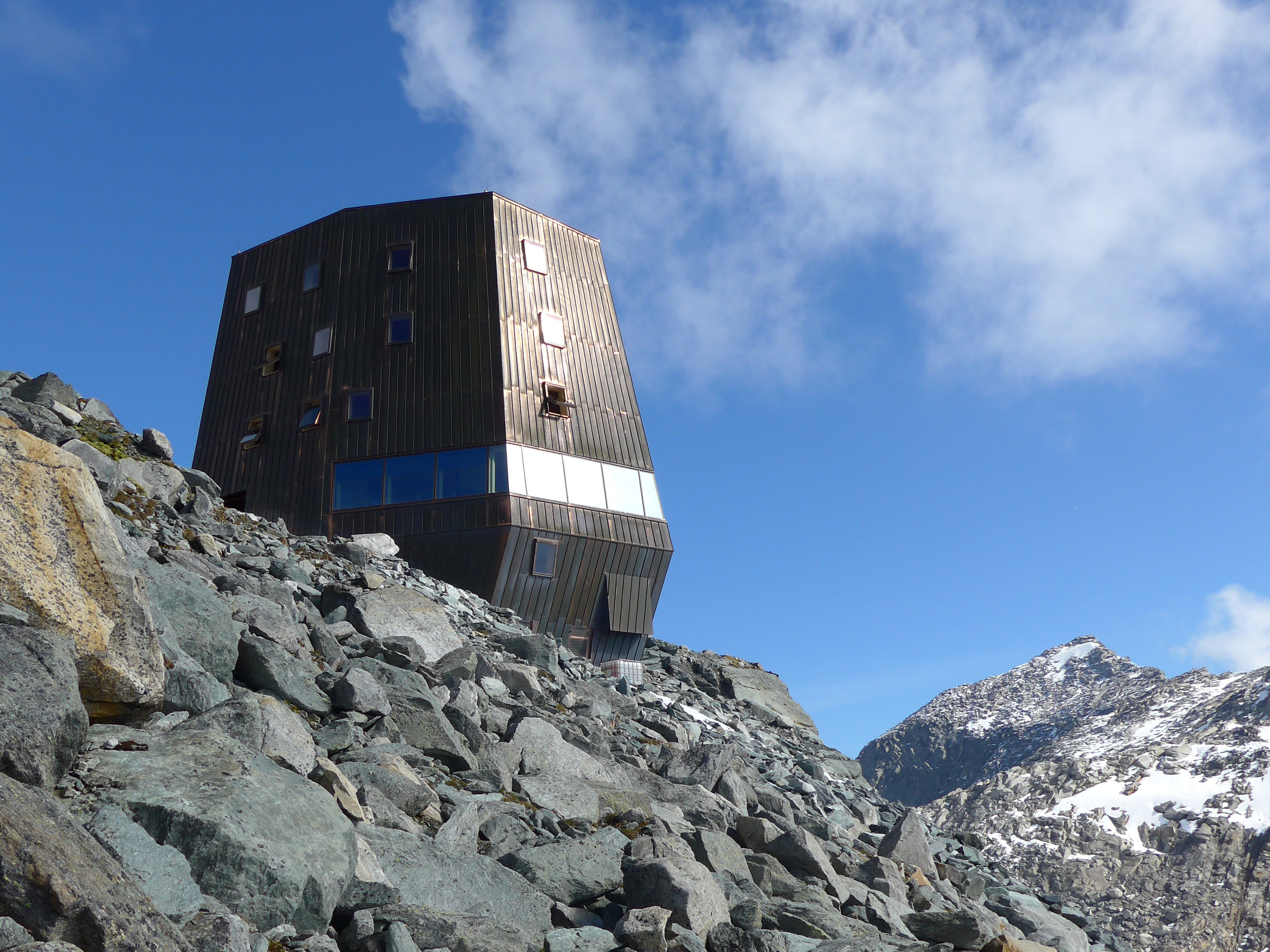 Schwarzensteinhütte in September 2018, on the right in the background Westliche Floitenspitze